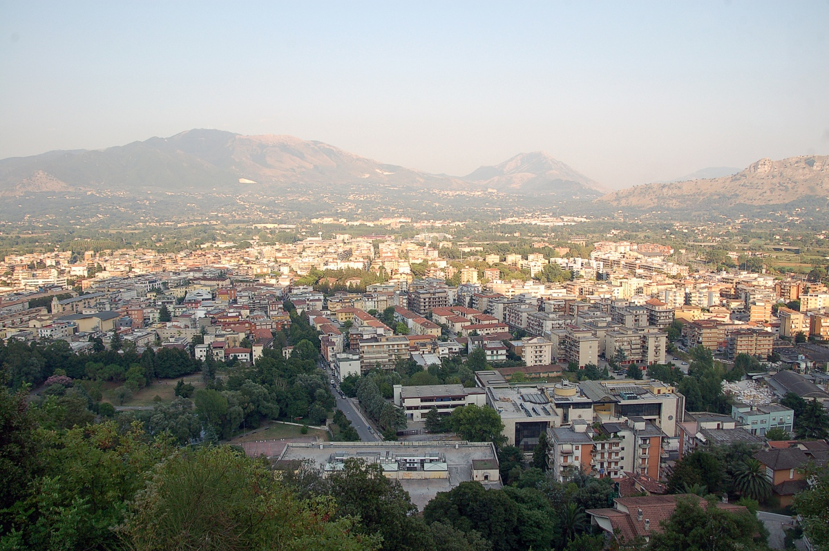 Cassino 2010